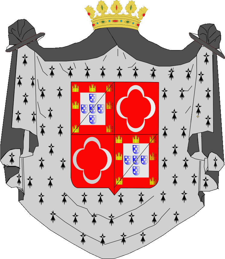 Arms of the Portuguese Dukes of Palmela Made by Jsobral